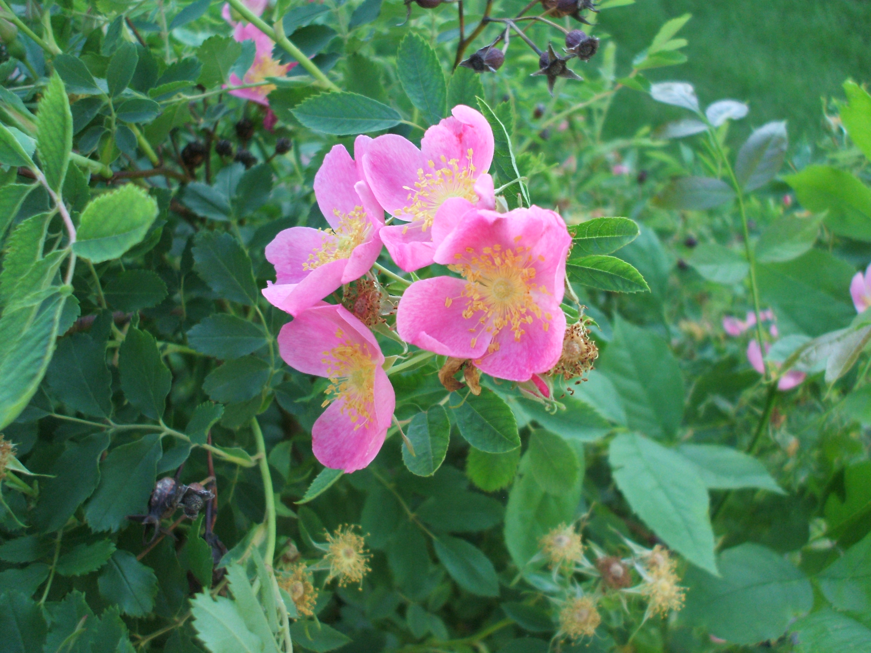 Rosa arkansana, the Wild Prairie Rose. In flower bed outside the Department of Biology, University of North Dakota.